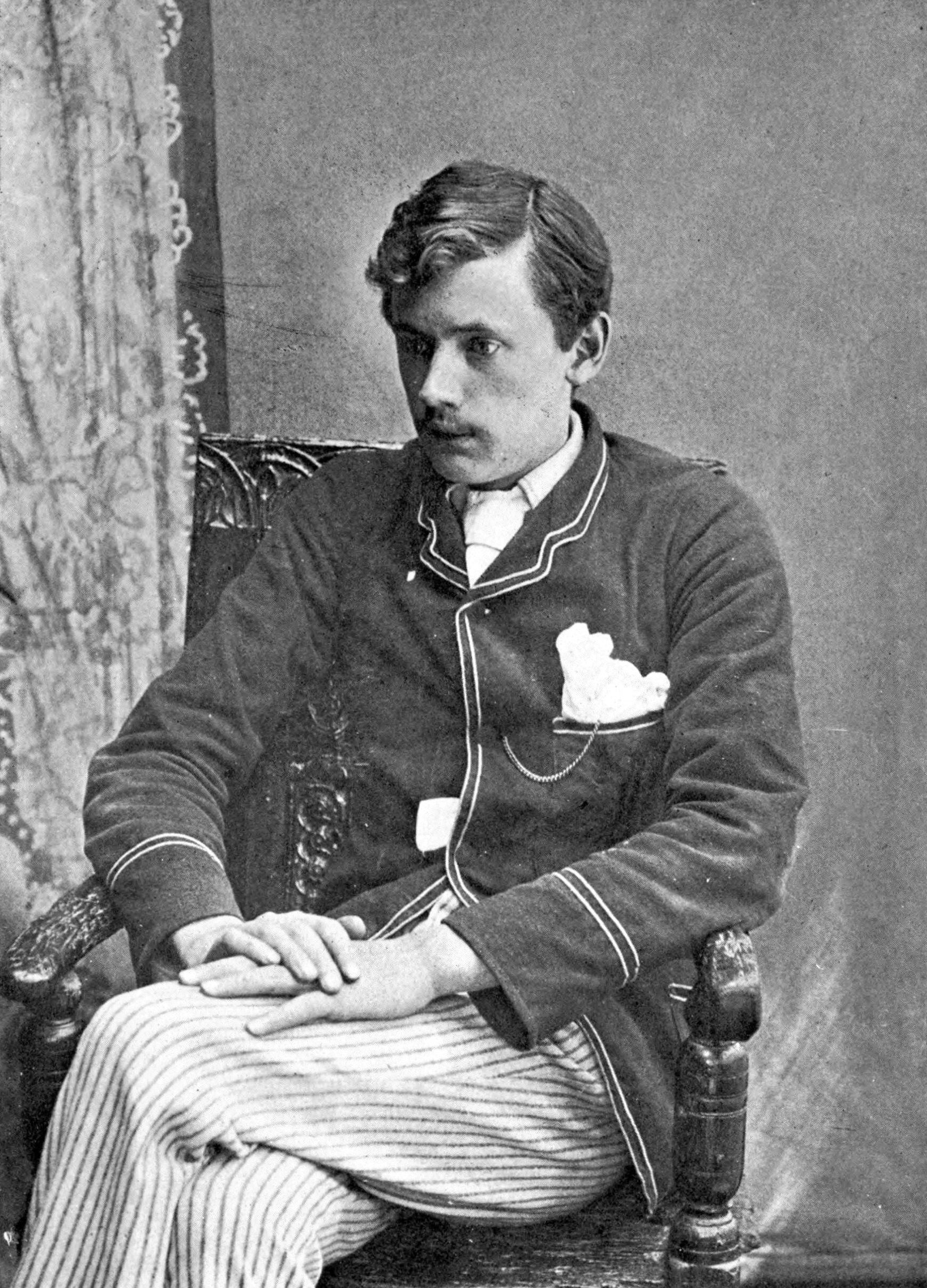 Portrait photo of English poet Ernest Dowson (1867-1900).